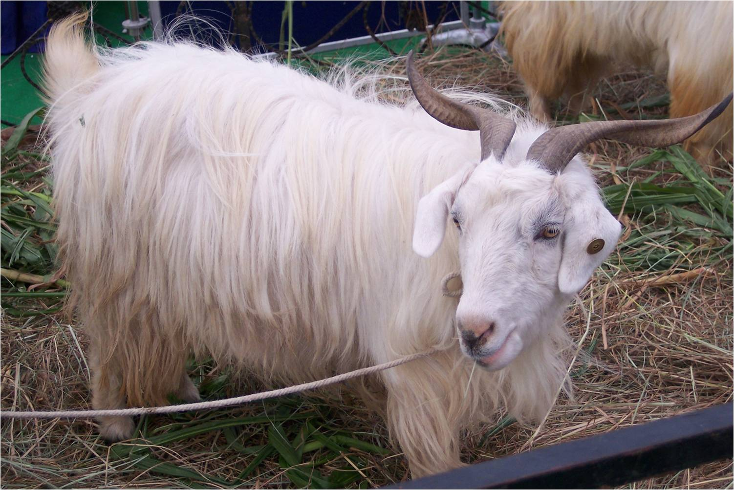 changthandi is the indian goat breed it has very short height and it is raised for wool